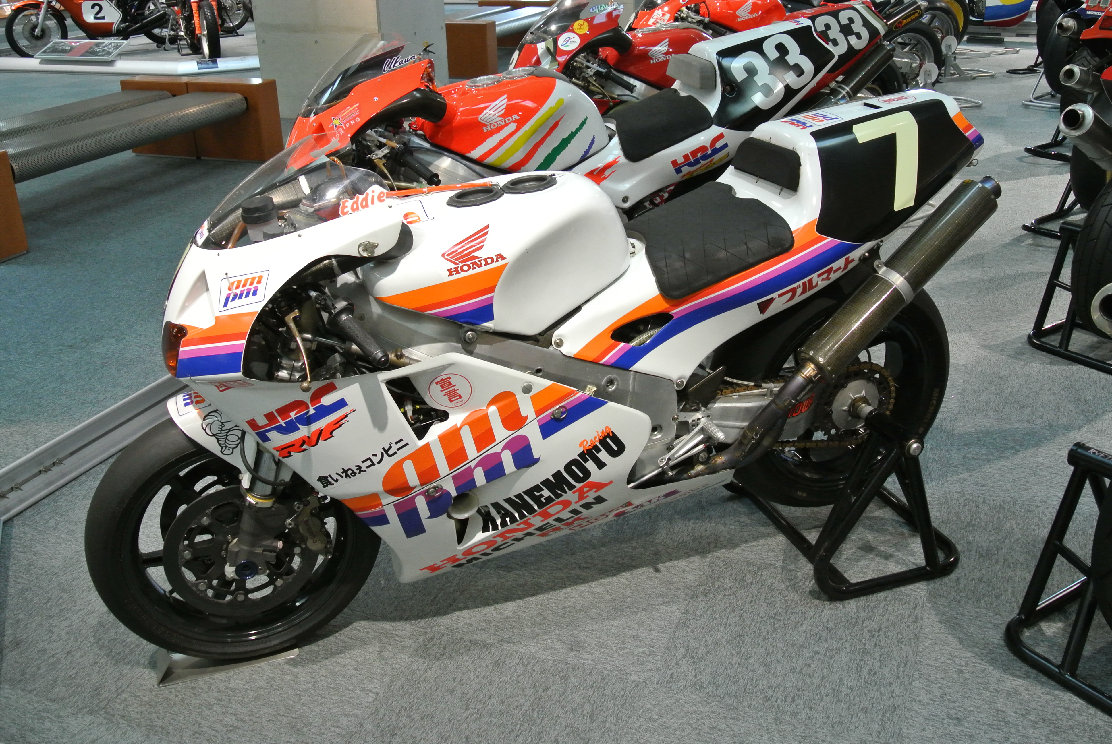 1993 RVF750 in the Honda Collection Hall.